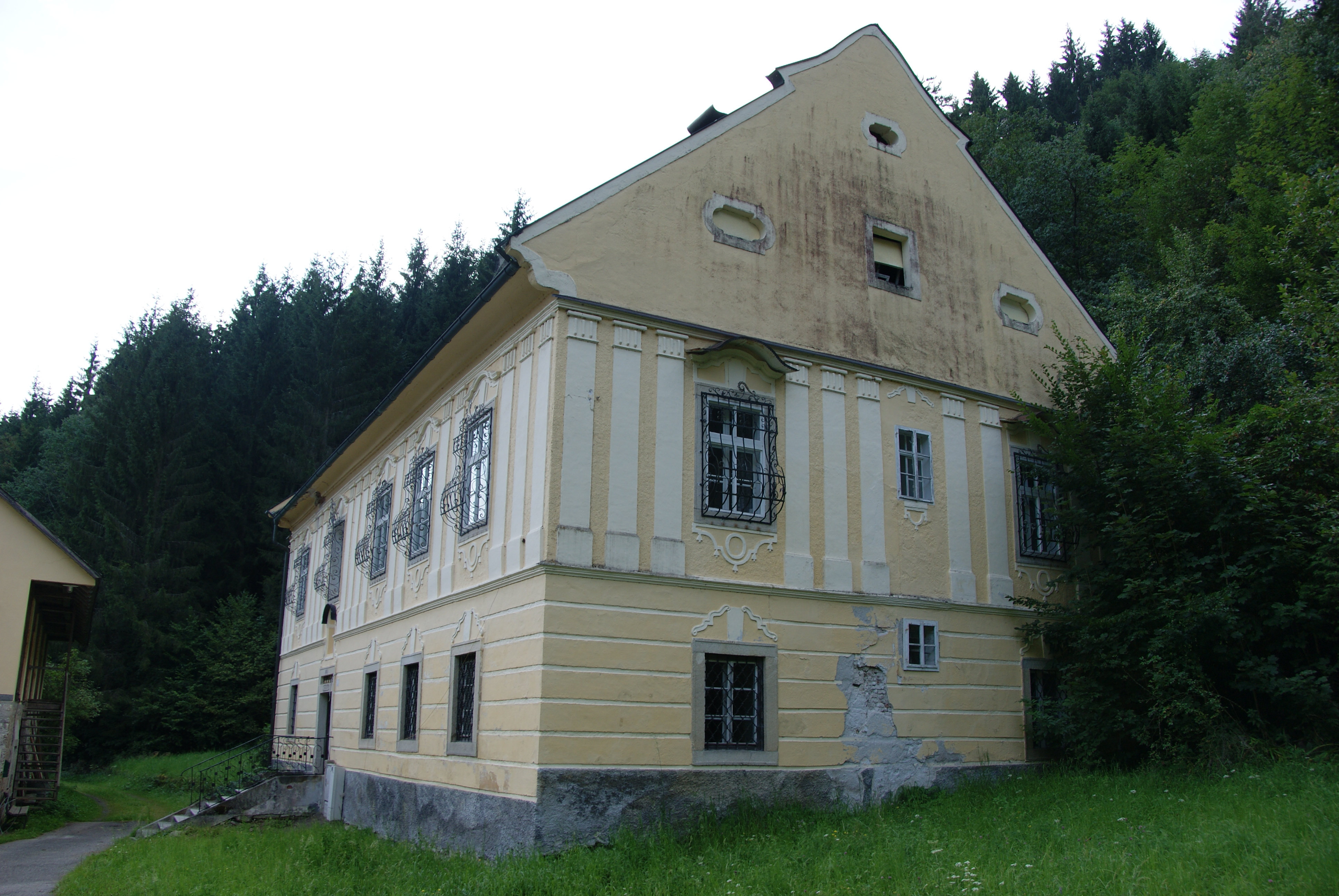 Manor house of former hammer forge in Gutau, Upper Austria